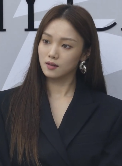 Lee Sung-kyung on October 18, 2019 at Jimmy Choo event.